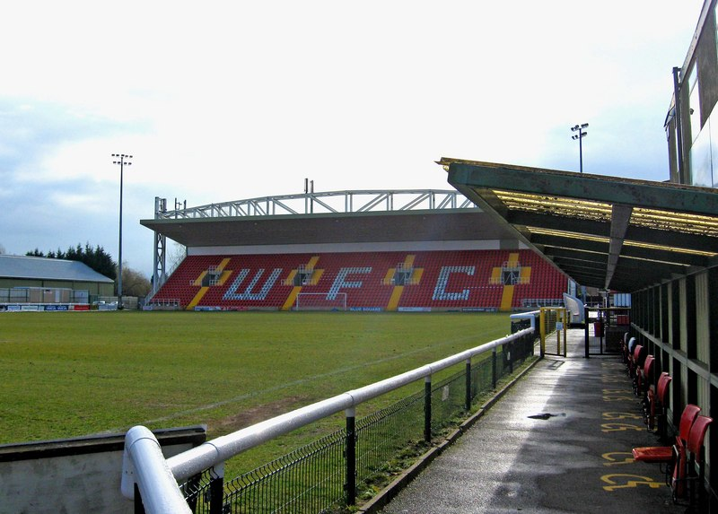 Woking Football Club - ground and Leslie Gosden Stand